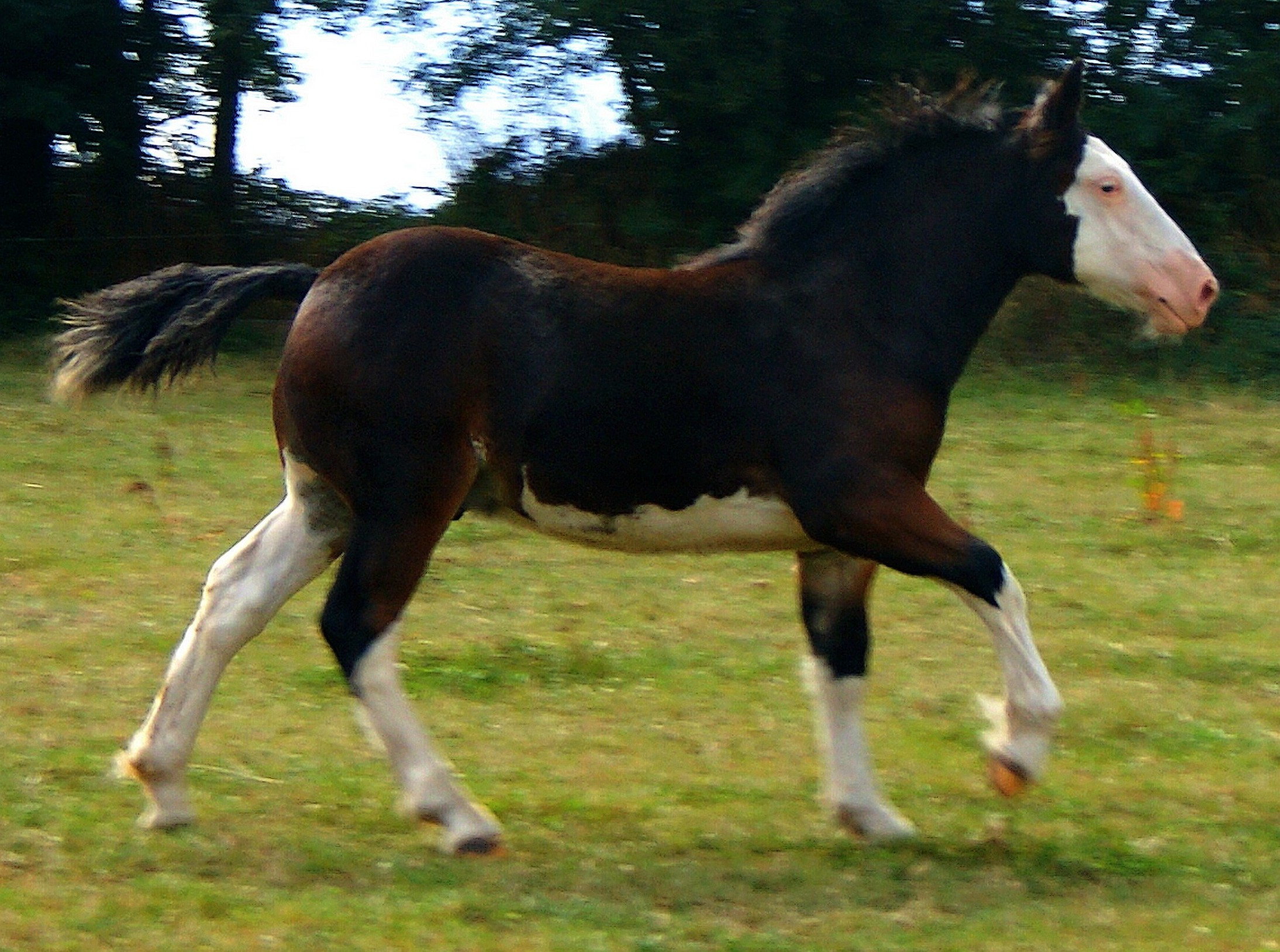 Splashed white Breton foal, out of a dam confirmed to be SW1SW1 by genetic test.